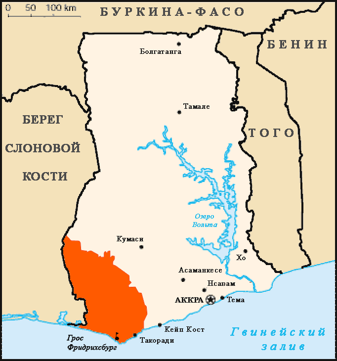 West region of Ghana with castle Groß Friedrichsburg